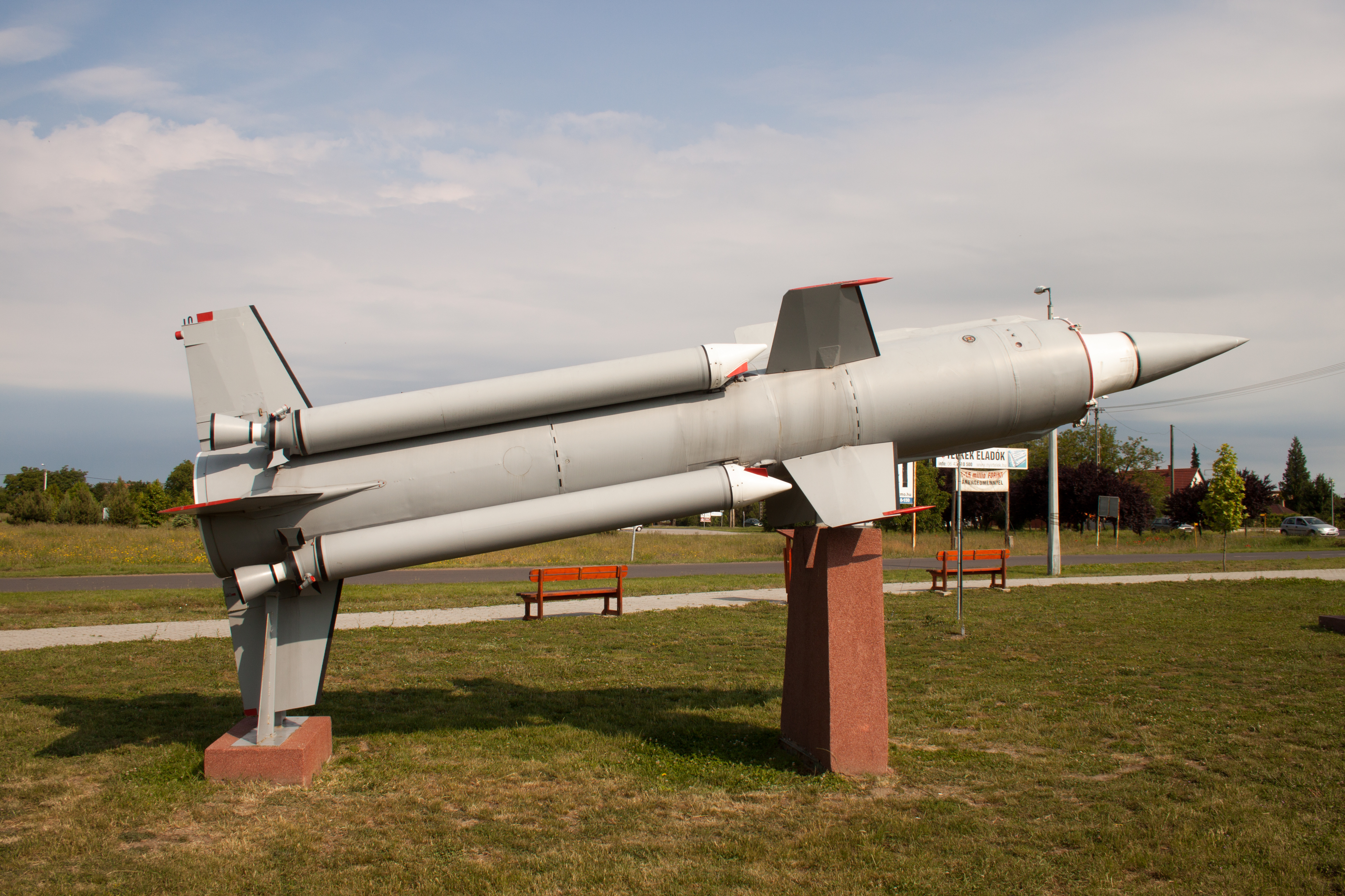 Nyírtelek, 2K11 KRUG surface-to-air missile